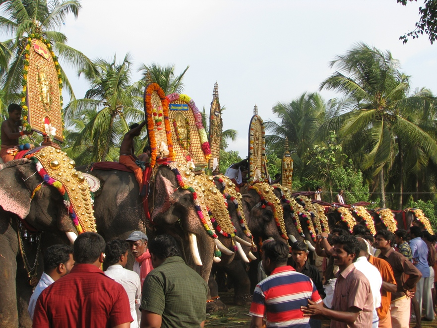 Puram at Chermanangad